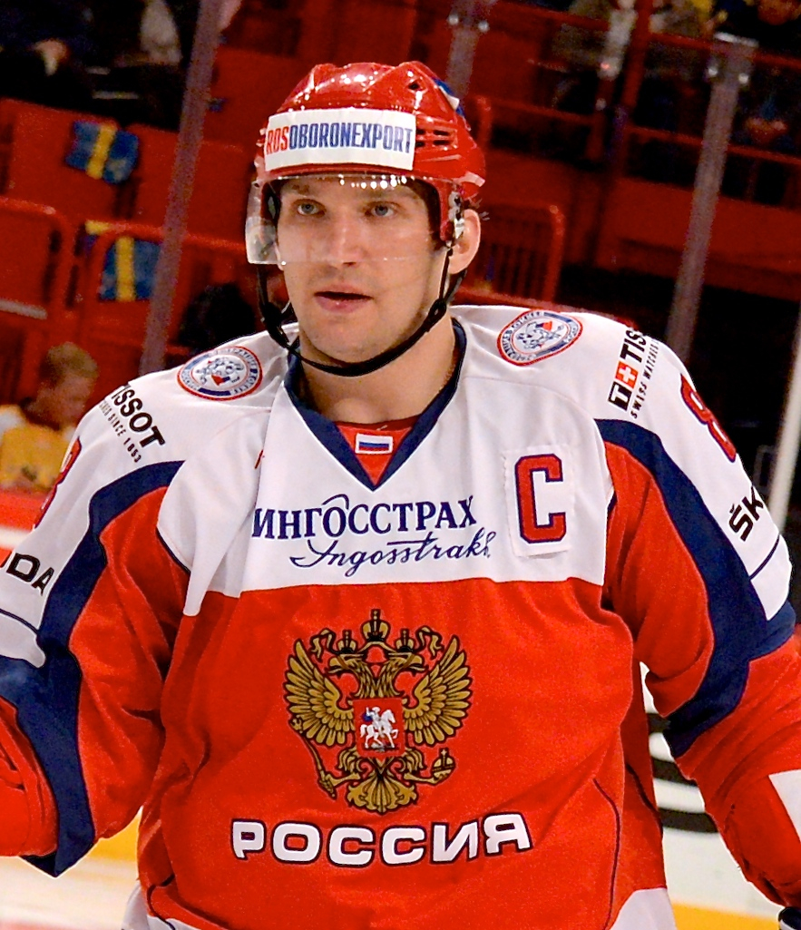 Aleksandr Ovetjkin during Oddset Hockey Games against Russia (2-0) at the Ericsson Globe in Stockholm on May 4th, 2014.